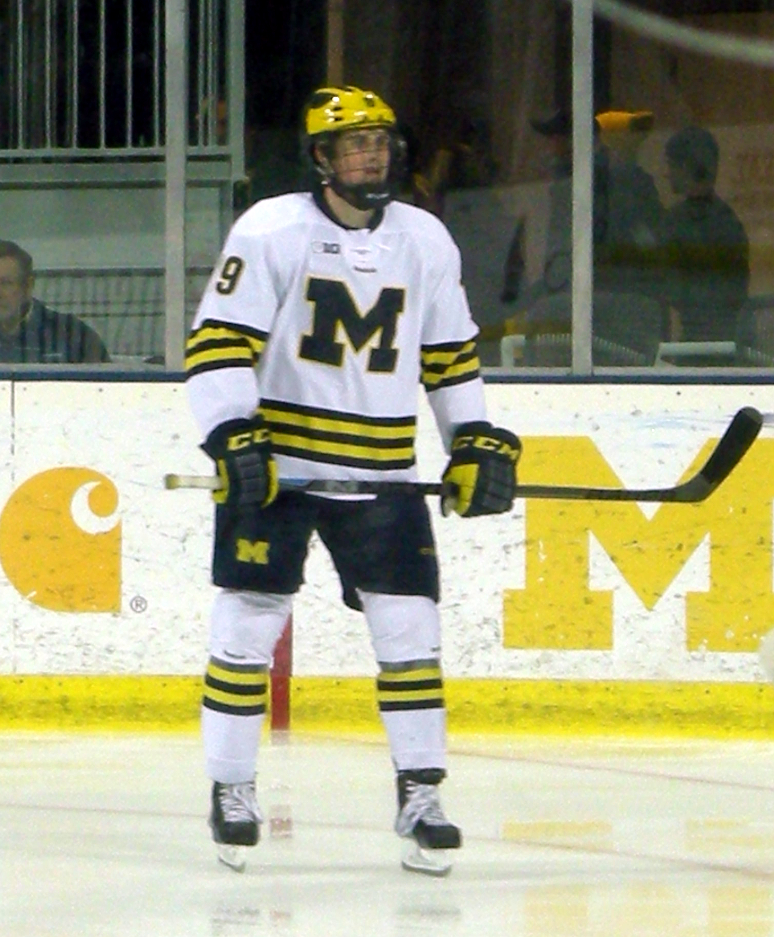 Dylan Larkin during the RPI Engineers vs. Michigan Wolverines men's ice hockey game at Yost Ice Arena in Ann Arbor, Michigan (United States). Michigan won 3–2.